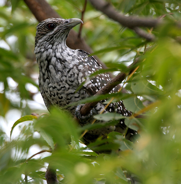 Asian Koel or Common Koel Eudynamys scolopacea in Hyderabad, India.